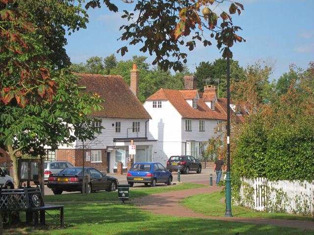 The Broadway, Data from Geograph: Description: This bent, was once the main A21 road. Lamberhurst is now bypassed by a dual carriageway. ICBM: 51.100431657962, 0.39222564260696 Location: (about 0 km from) near to Lamberhurst, Kent, Great Britain.